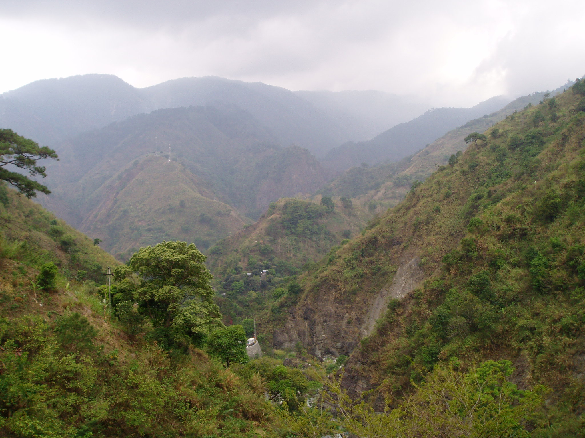 the Cordillera Central in the island of Luzon, Philippines Tagalog: Ang byu ng Bulubunduking Cordillera mula sa Lungsod ng Baguio